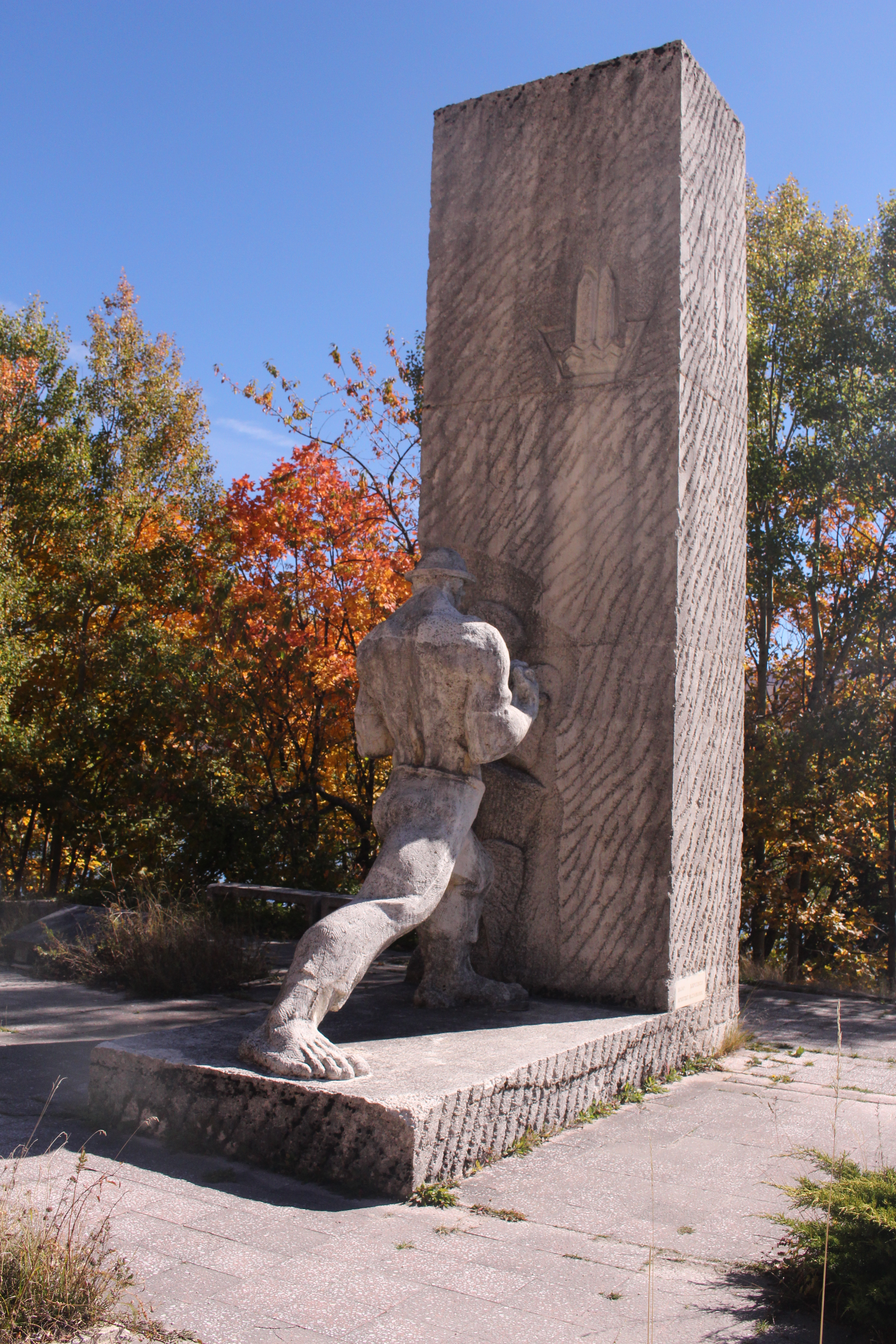 Споменик за загинатите градители на ХЕЦ Маврово